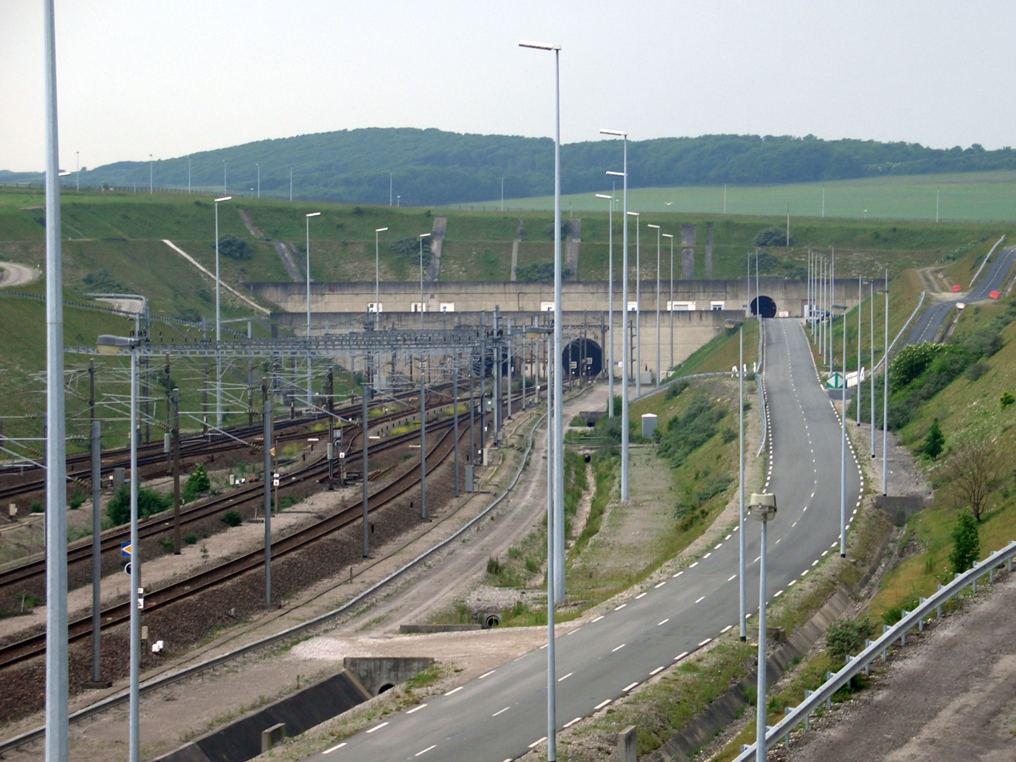 Entrance to the Channel Tunnel nearby Coquelles (France)